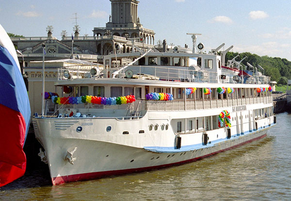 "BELINSKIY" in Moscow (2004). Project 646, type Baikal